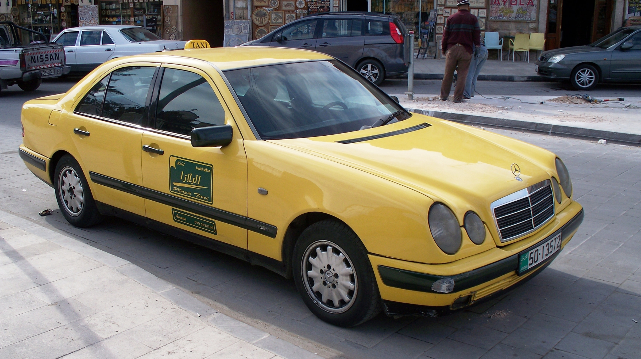 Mercedes-Benz Taxi in Jordan.